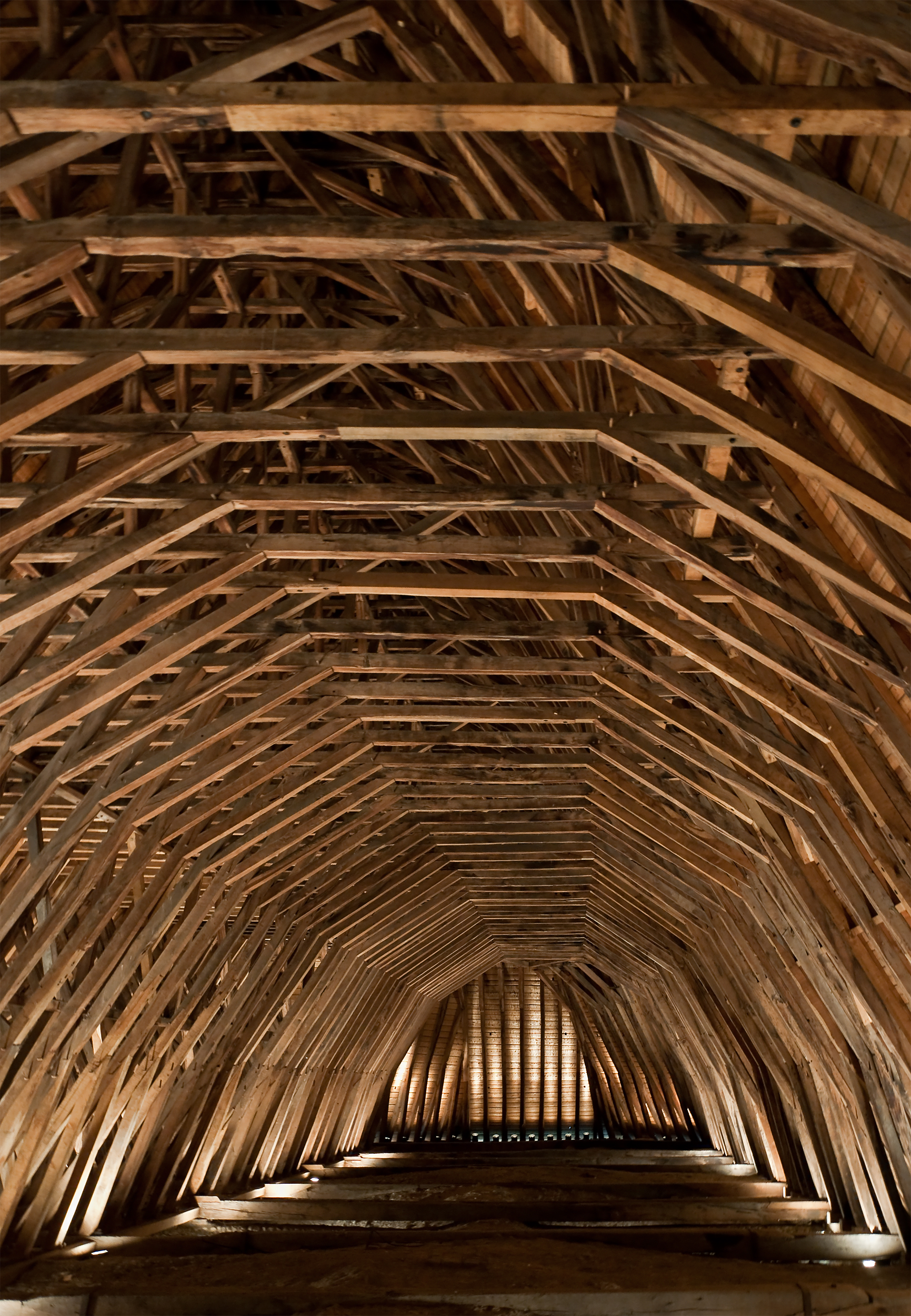 The heart of oak frame of Saint-Girons church in Monein, Pyrénées-Atlantiques, France, built by Cagots. .